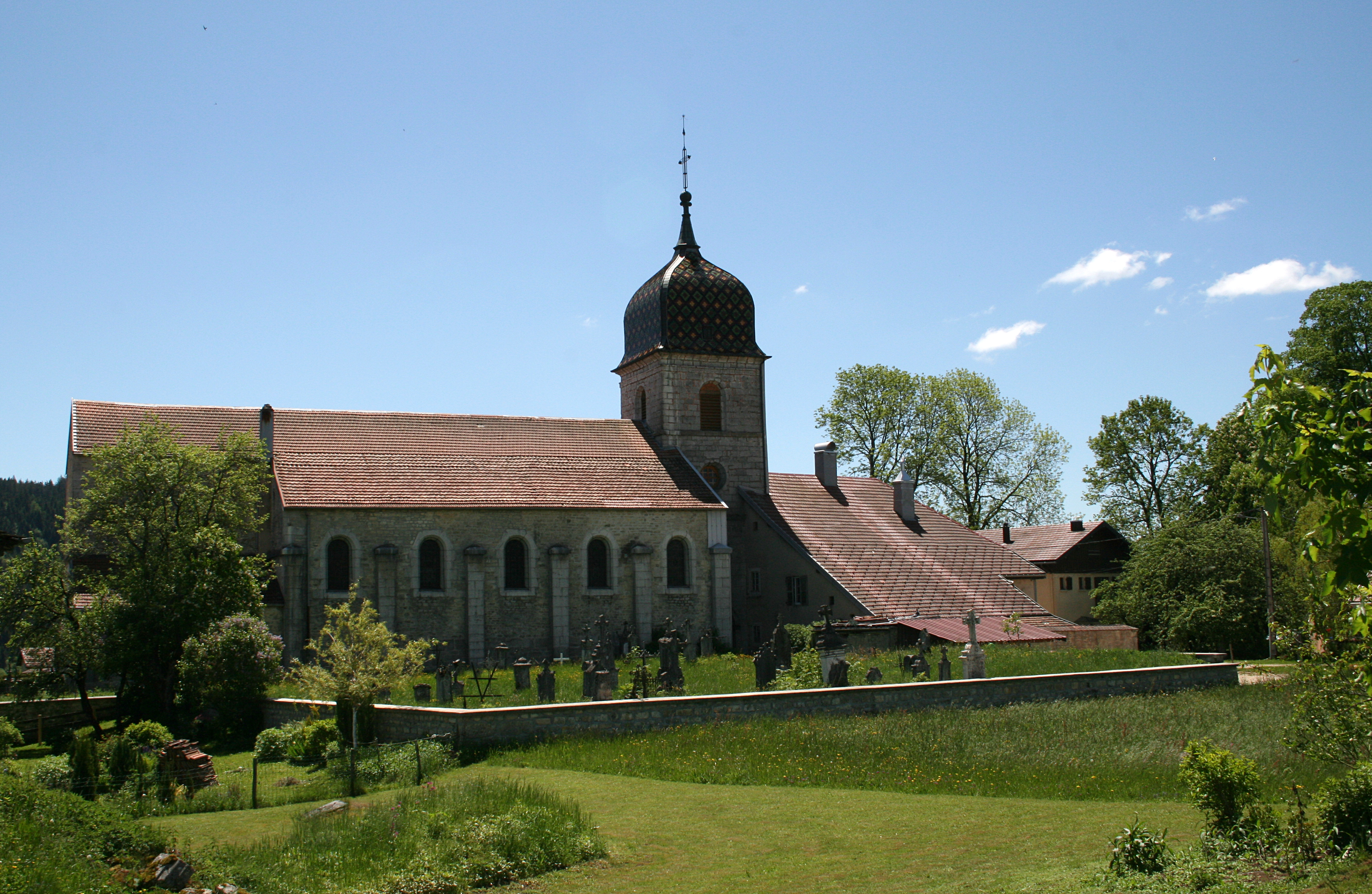 Arçon (Doubs - France), neighborhood of the church of the Assumption.